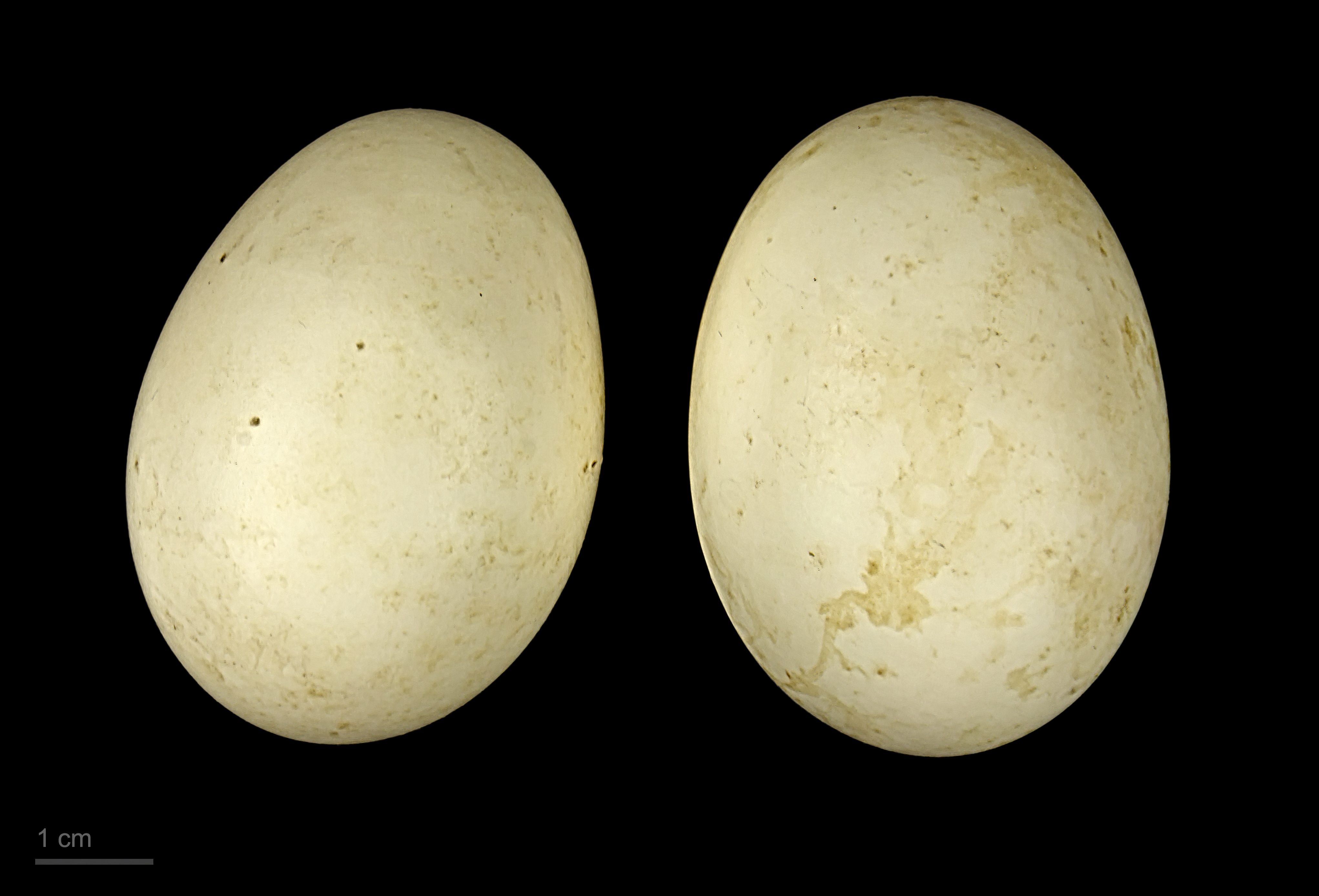 Eggs of smew Two specimens of the same spawn ; collection of Jacques Perrin de Brichambaut.